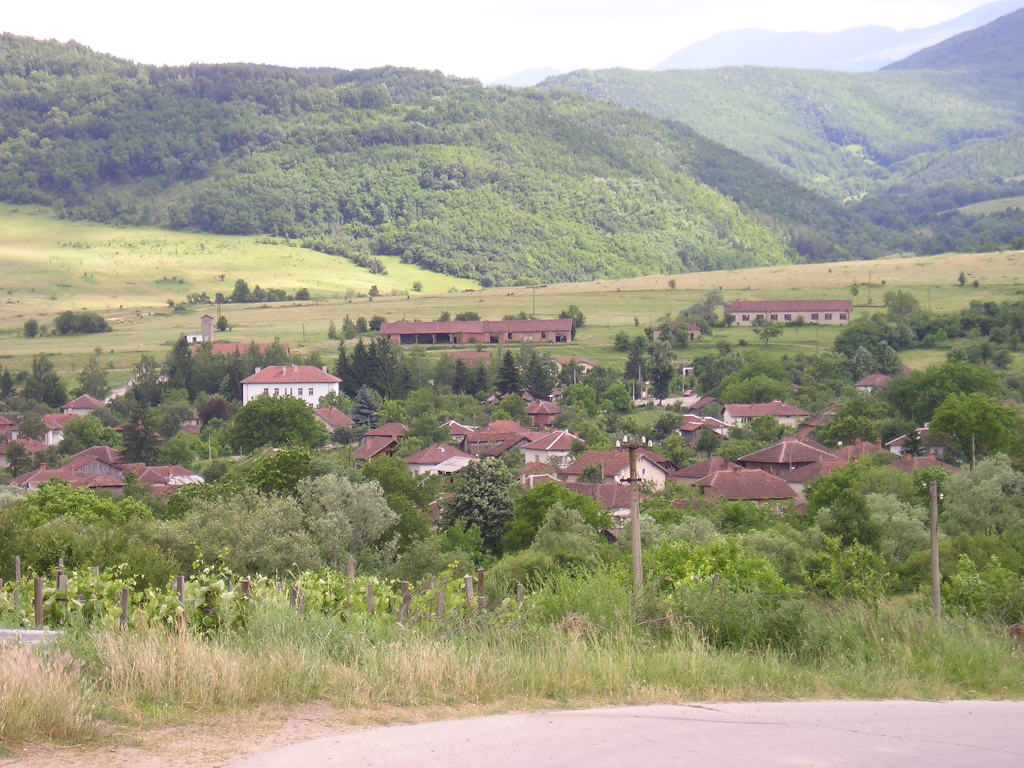 Overview of village Chuprene, Bulgaria. 19 June 2005